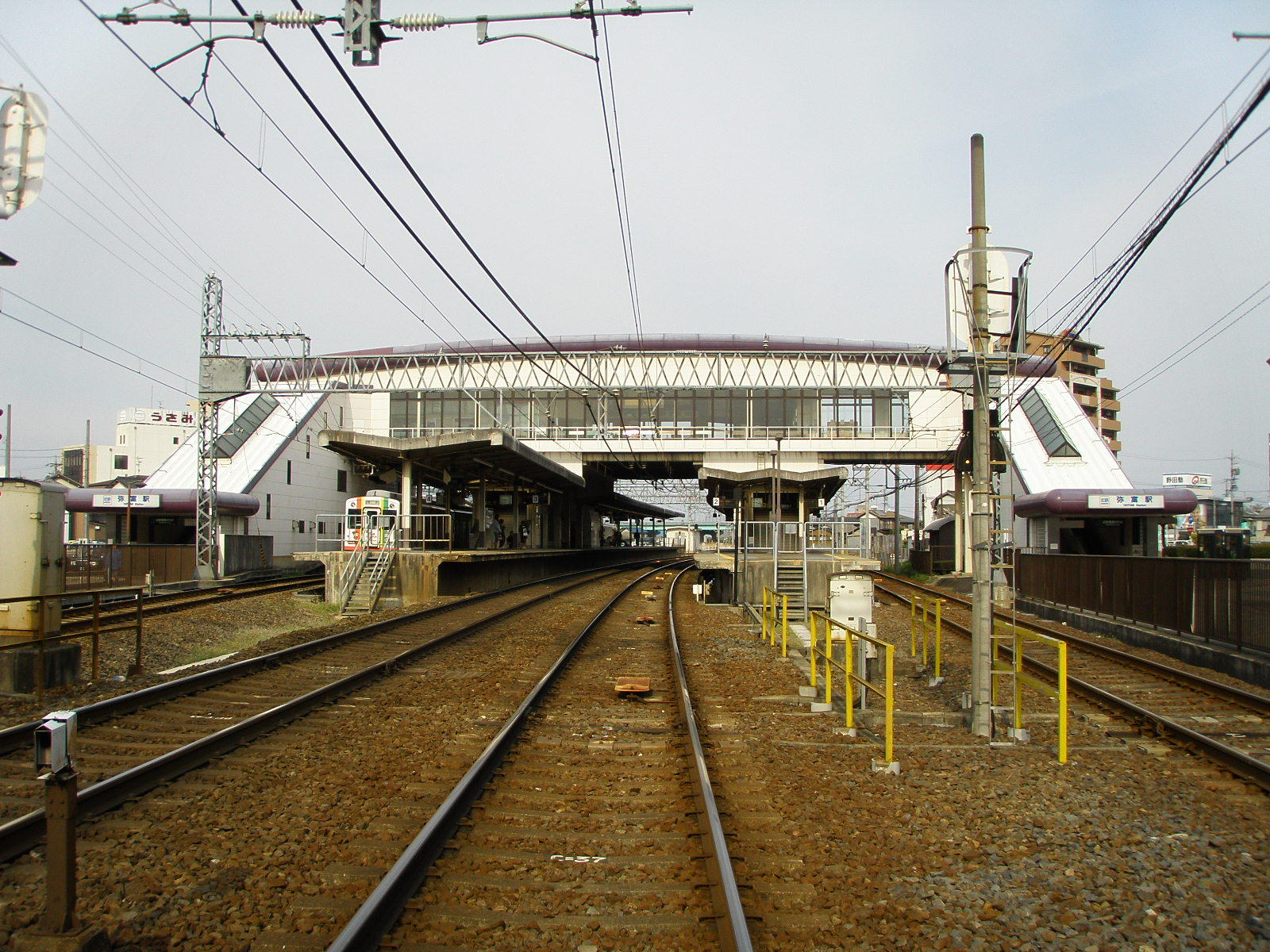 Kinki Nippon Railway Kintetsu-Yatomi Station Building & Platform